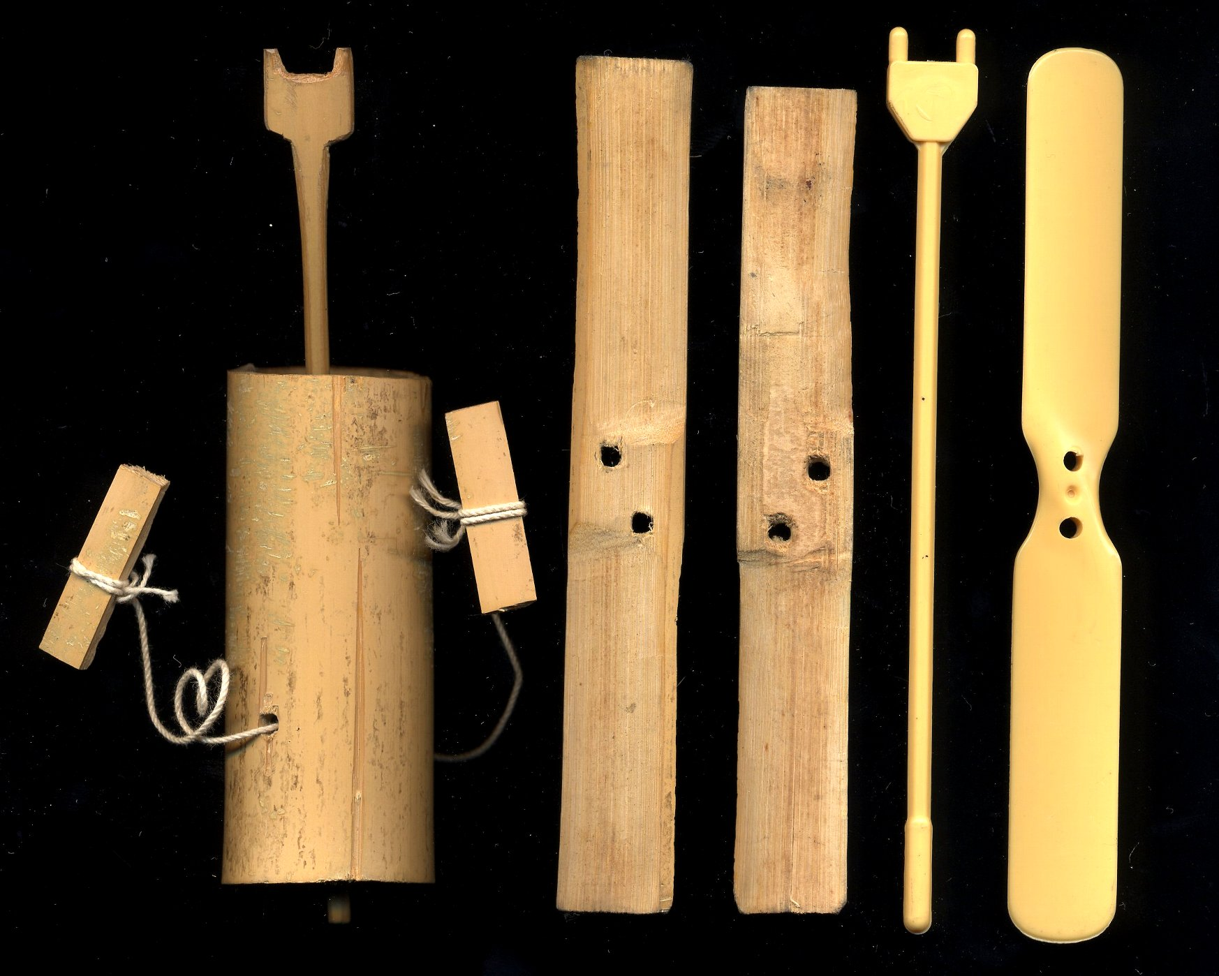 A selection of bamboo-copters.